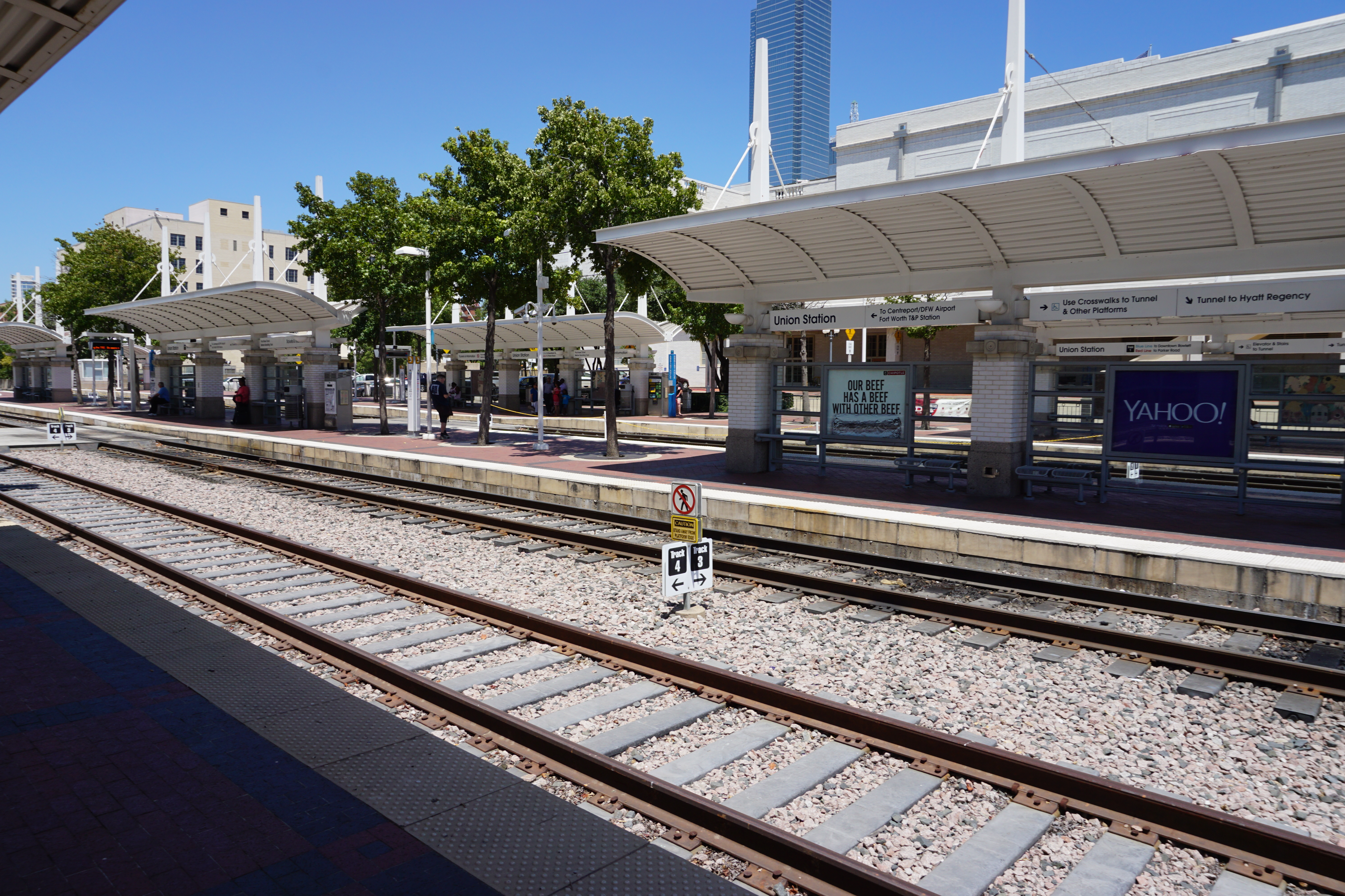 Union Station in Dallas, Texas (United States).